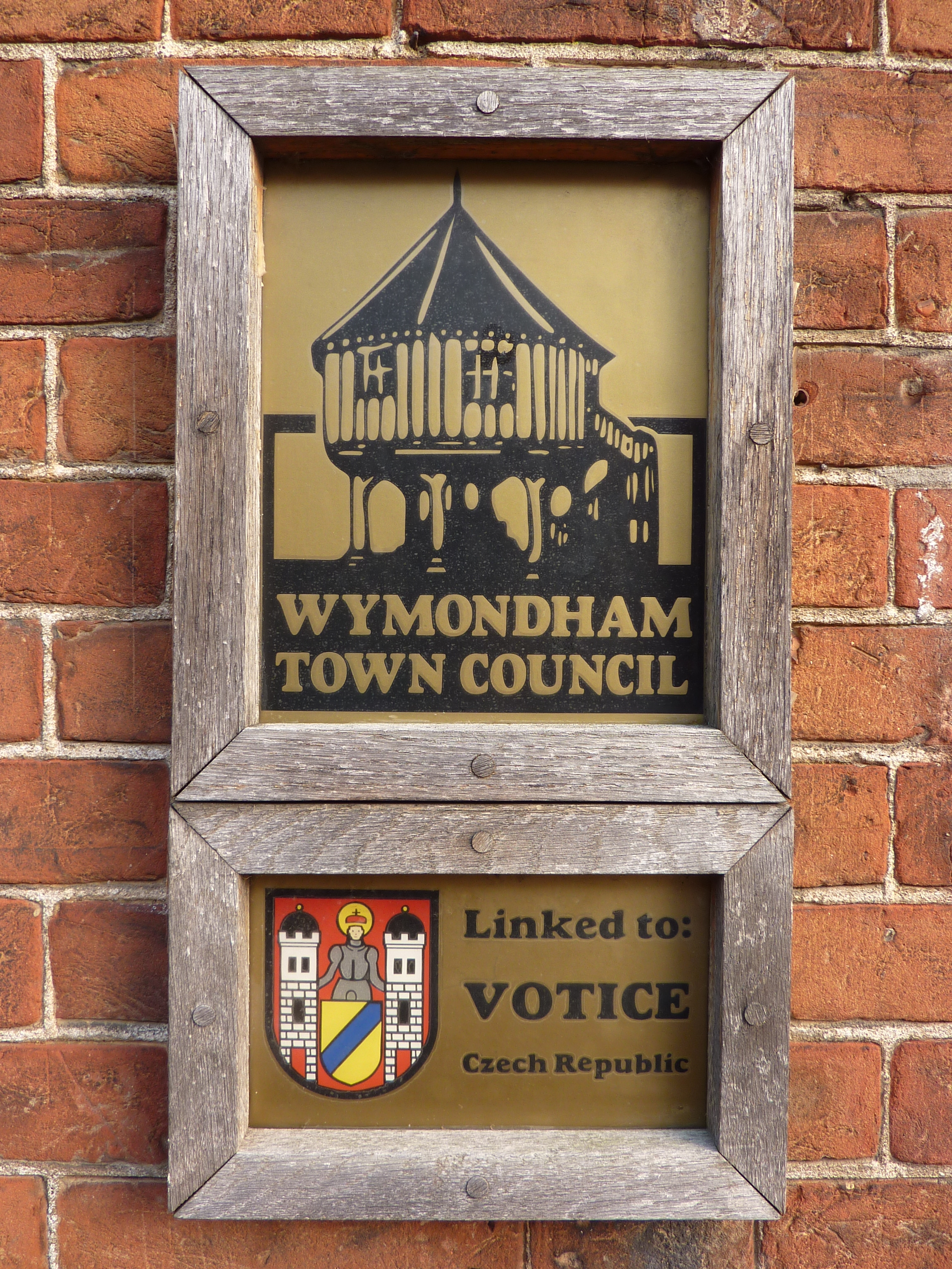 A plaque on Wymondham Town Hall (Norfolk, UK) commemorating links with Votice in the Czech Republic.